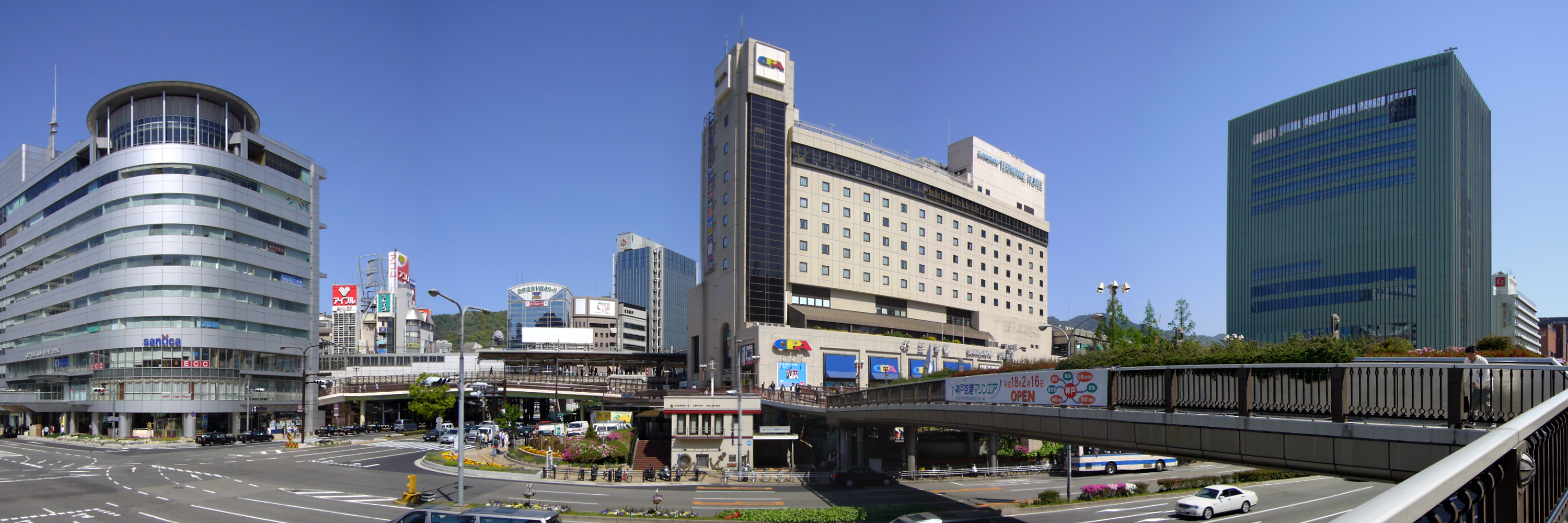 JR Sannomiya Station in Kobe, Hyogo prefecture, Japan